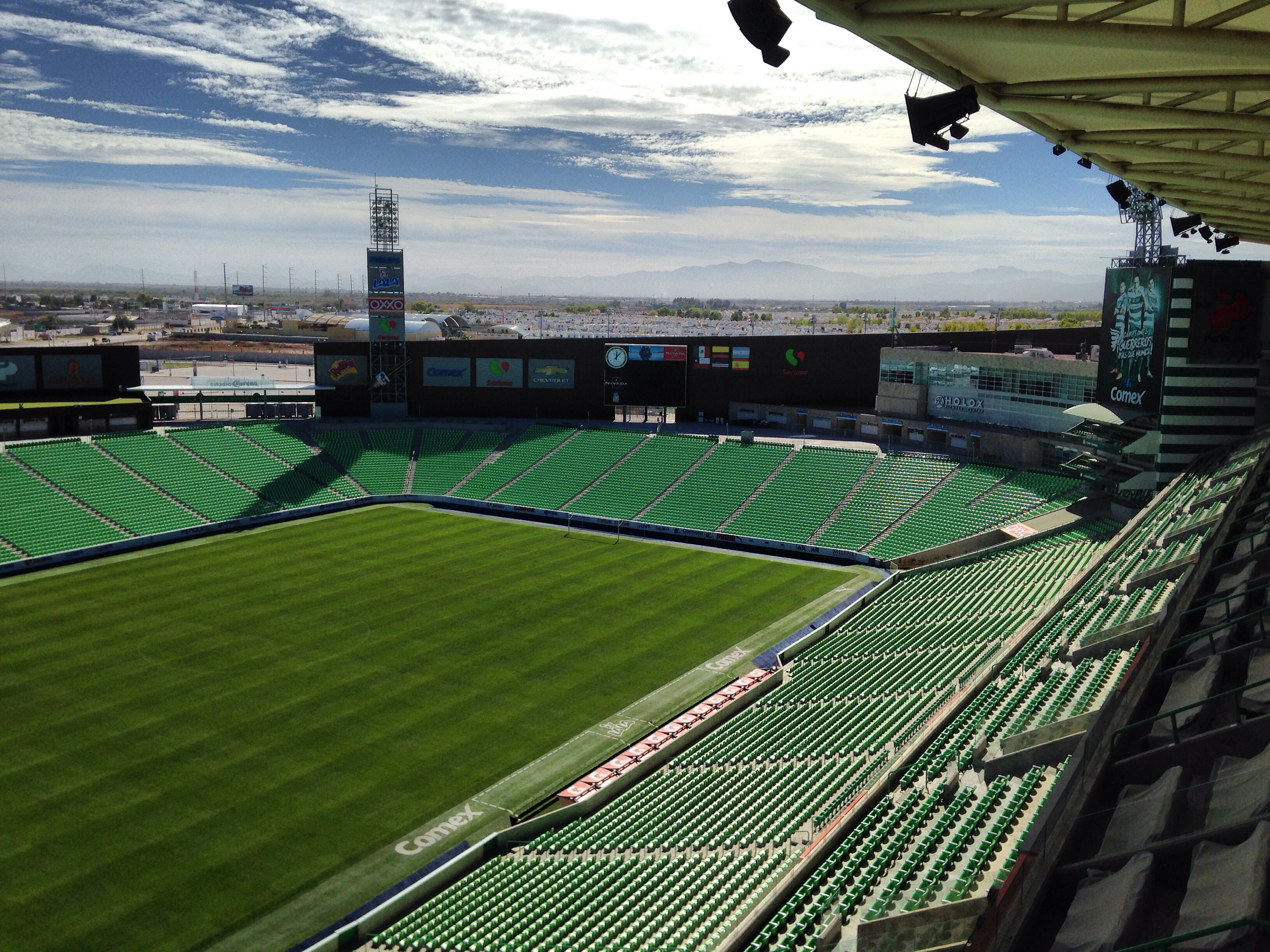 Torreon's Soccer Stadium